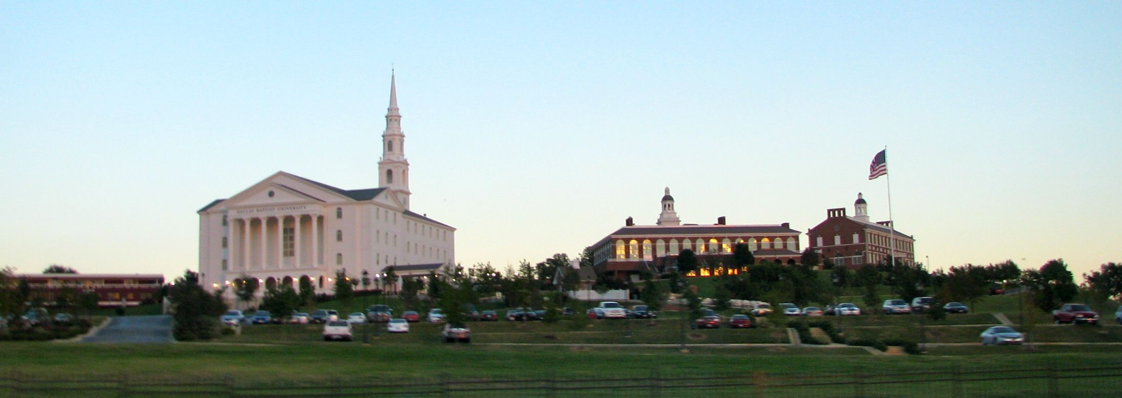 Dallas Baptist University